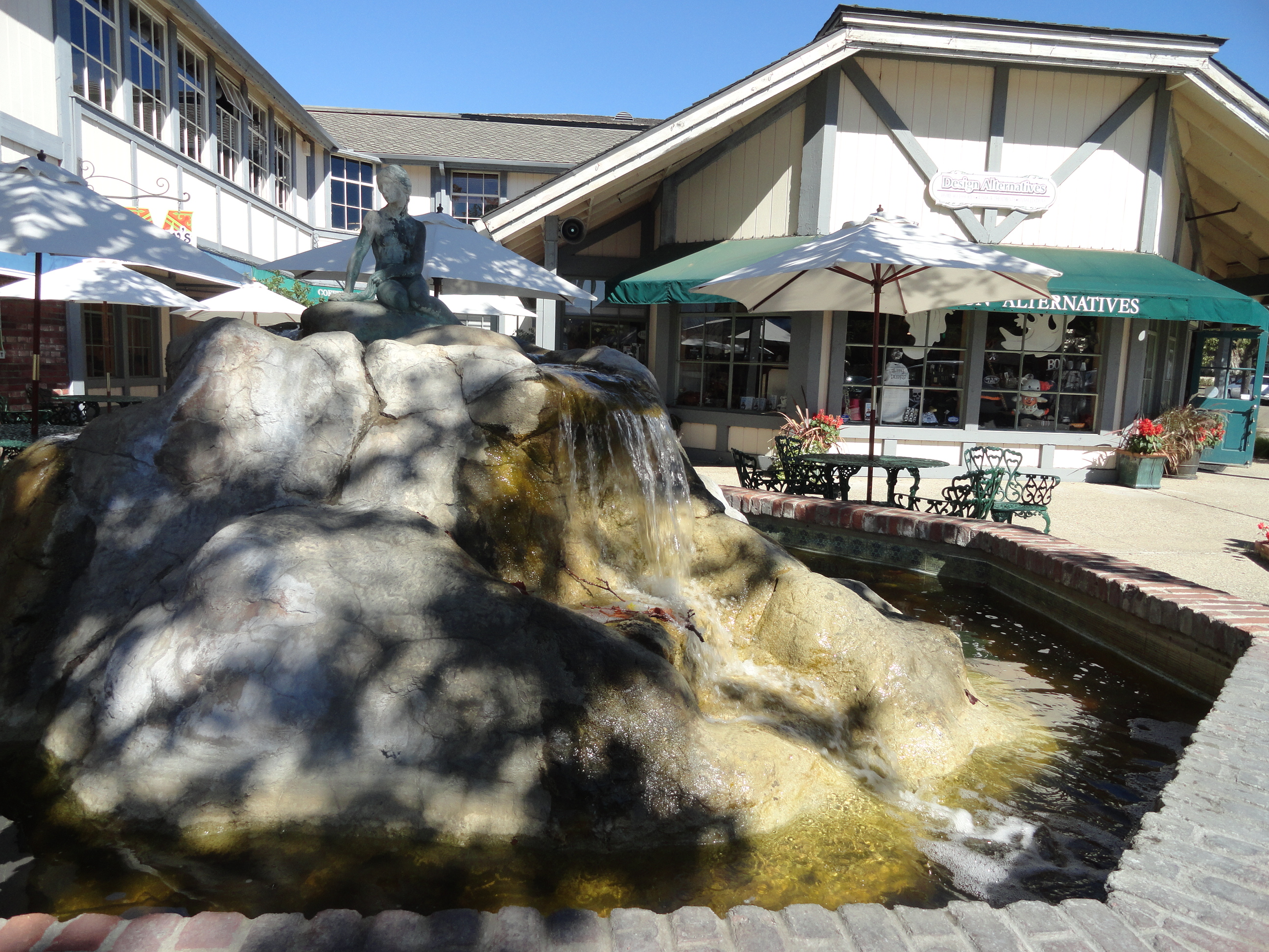 There is a really nice decoration in the streets of Solvang, CA, USA. In the squares of the city you can find nice bakery and coffee shops by the small fountains.